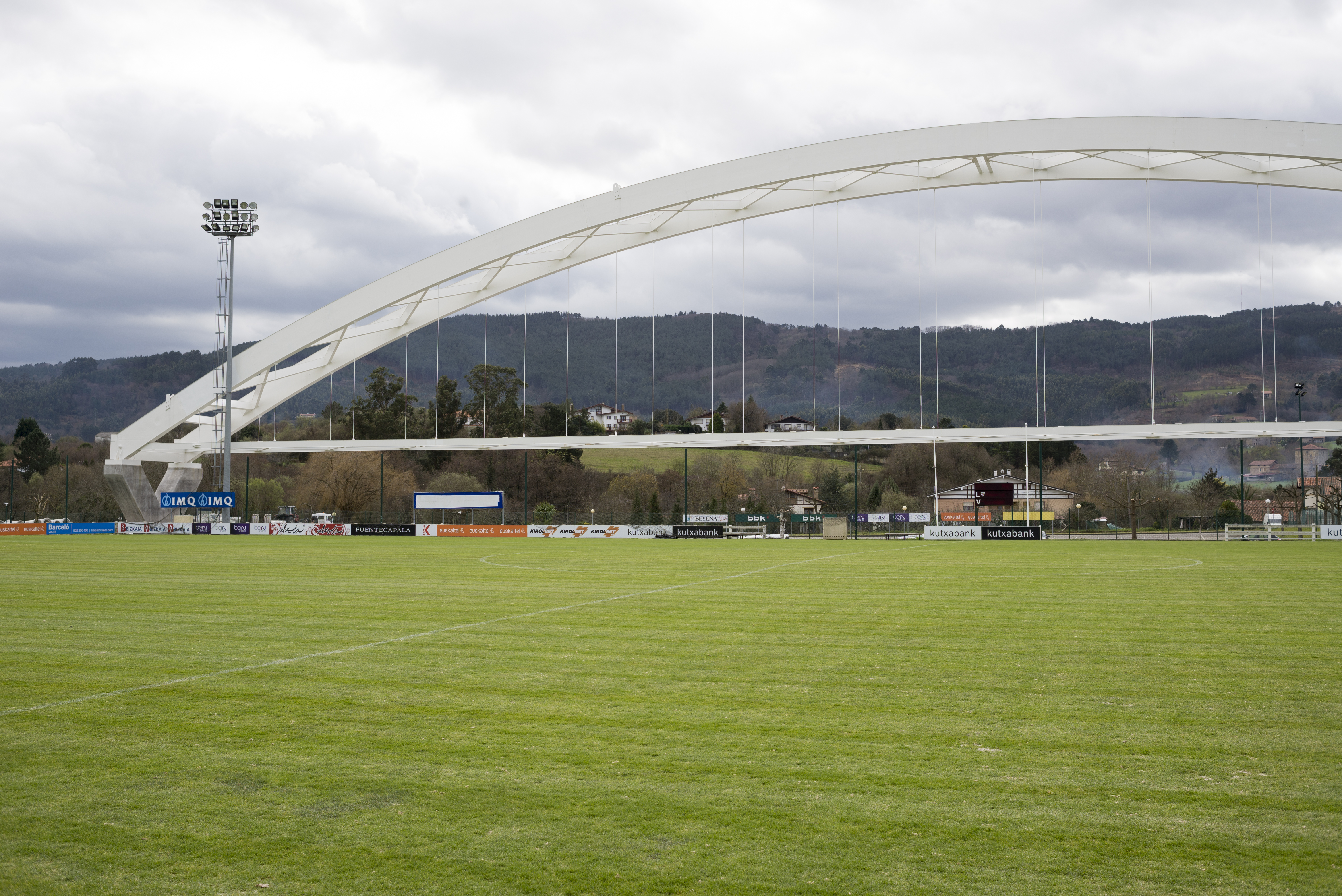 Arch from grandstand of original San Mames stadium, Bilbao, placed pitch side at the Lezama training facility, 2016